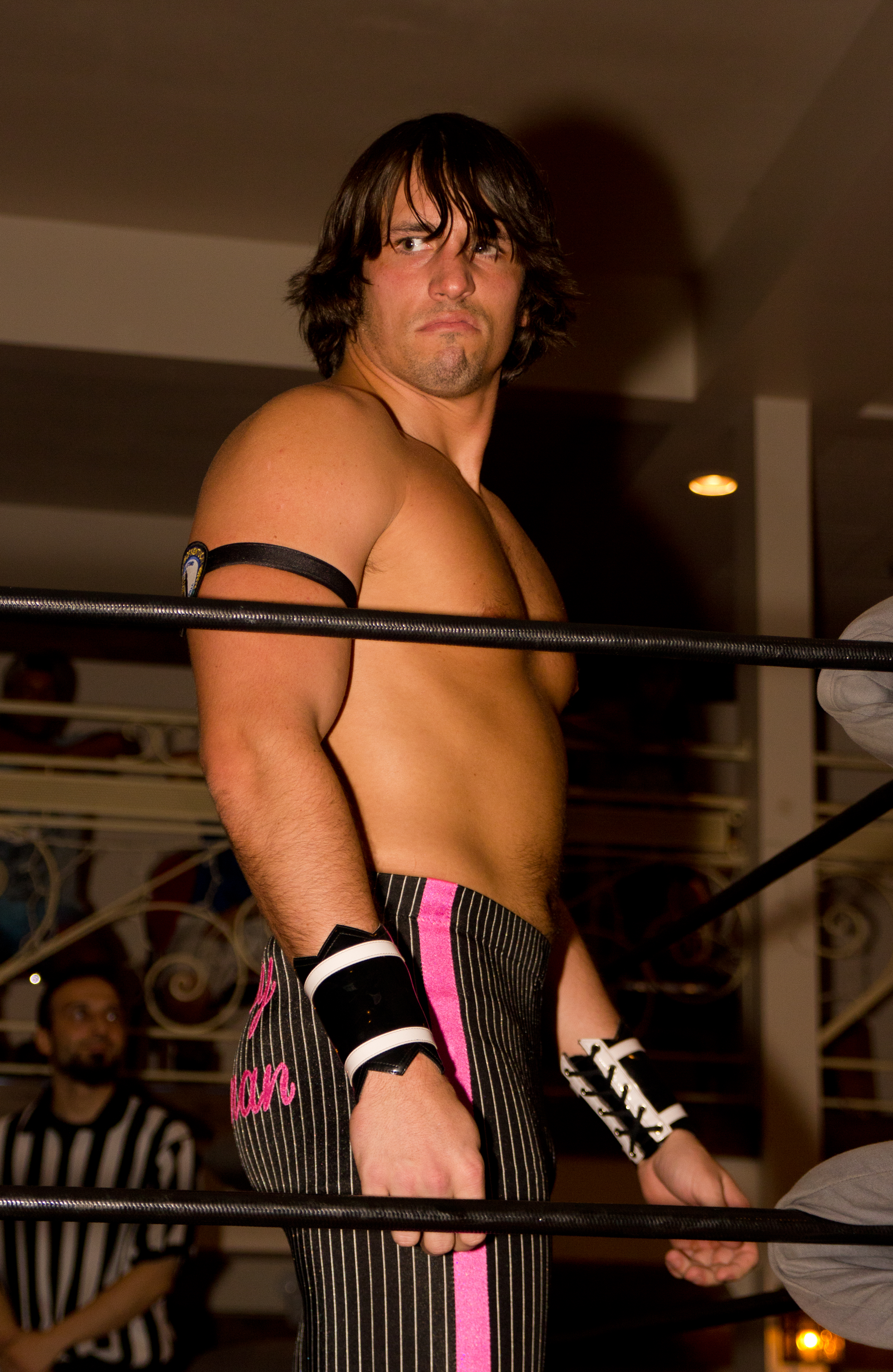 Chuck Taylor at an independent wrestling show in Hamilton, ON